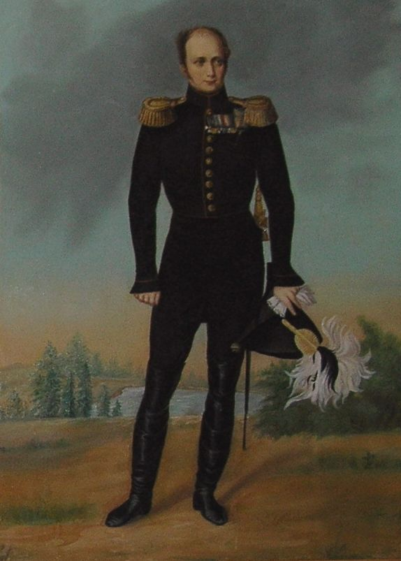 Alexander I of Russia (copy of George Dawe by anonimus Tomsk painter)